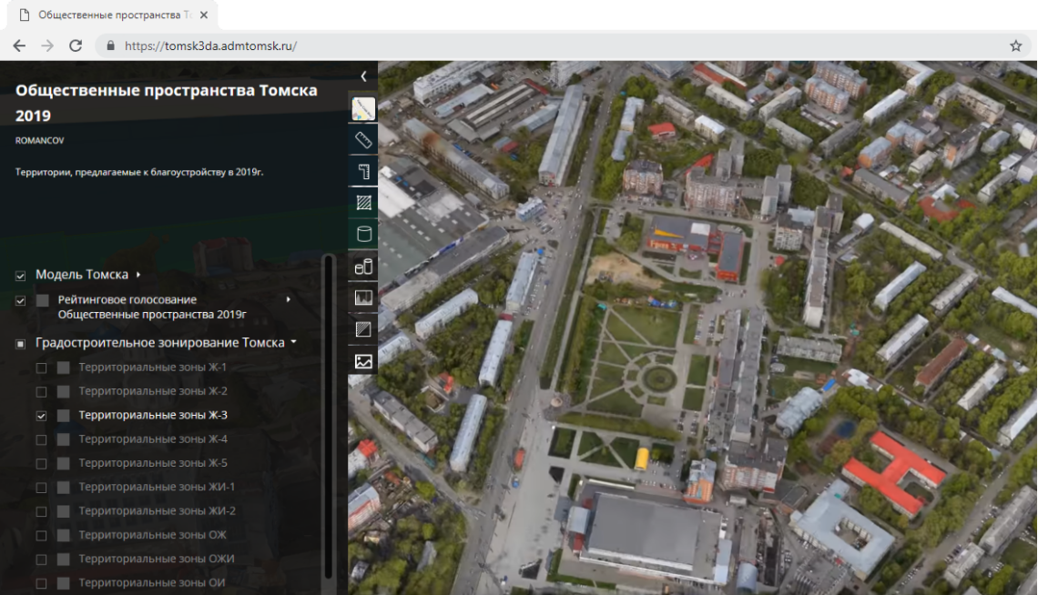 Geoscan Tomsk site